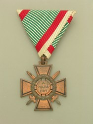 Hungarian Military Order "Cross Fire"